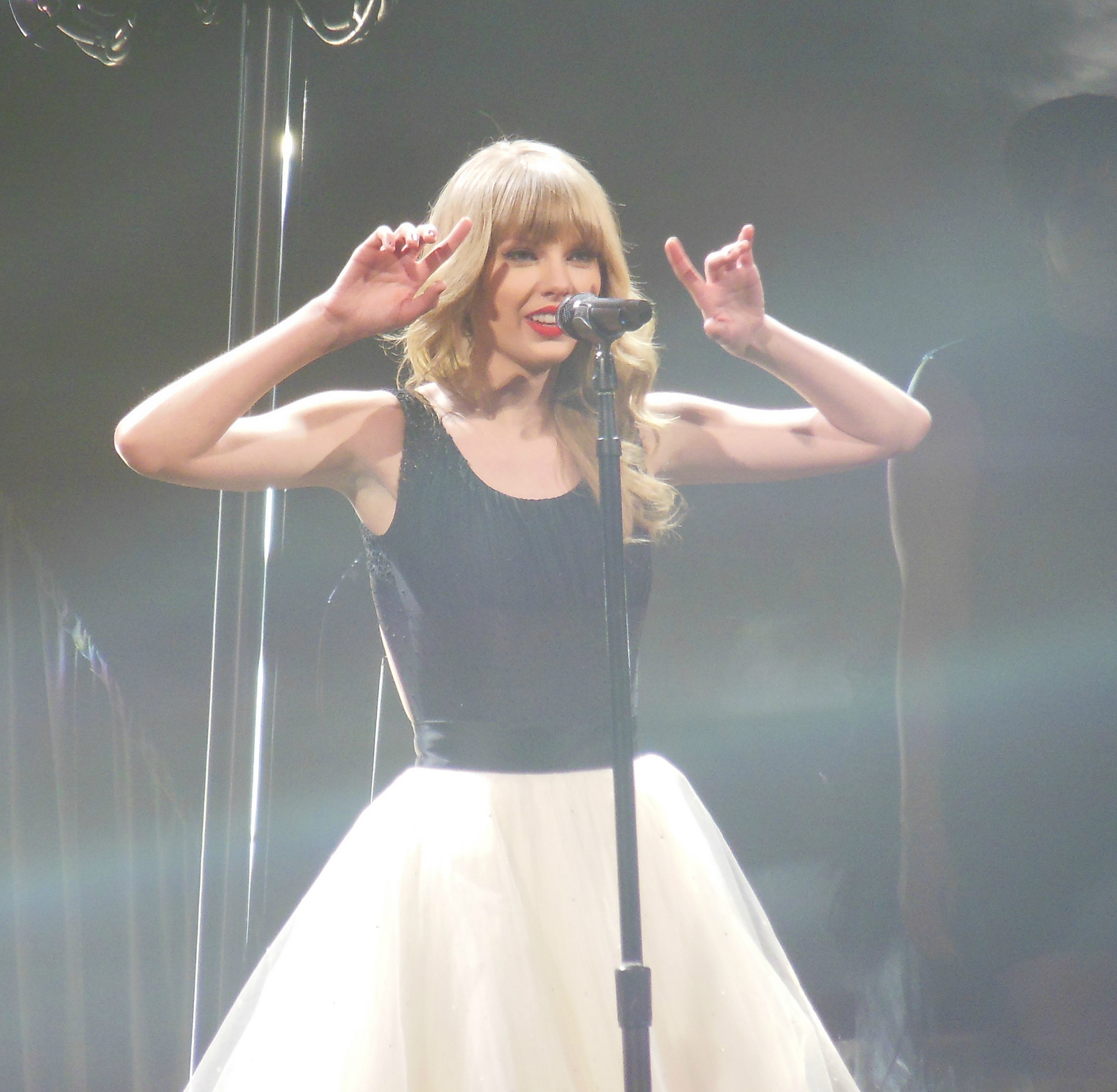 Taylor Swift during the Red Tour, March 2013